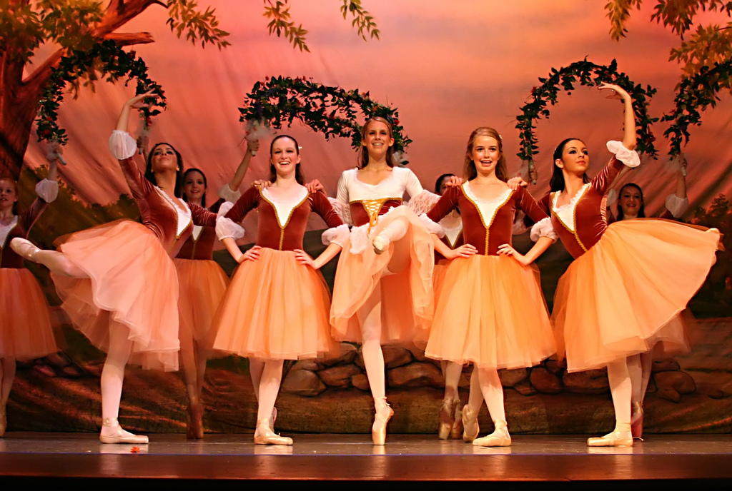 Copellia Recital 2007.